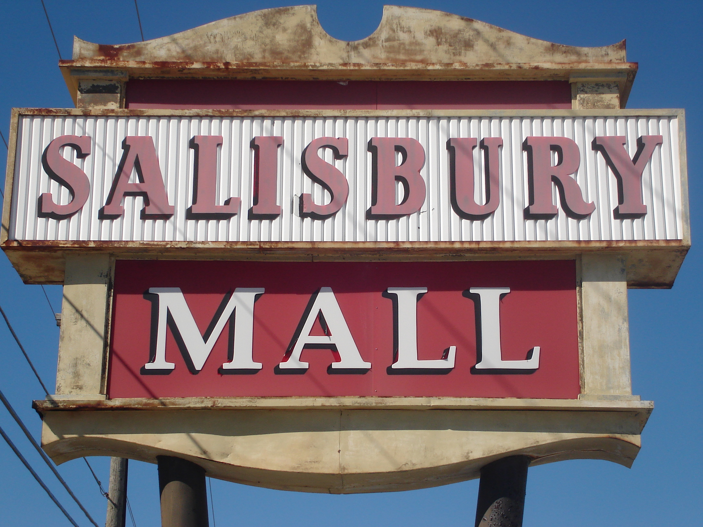 Original sign from Salisbury Mall, Salisbury, Maryland. October 2006